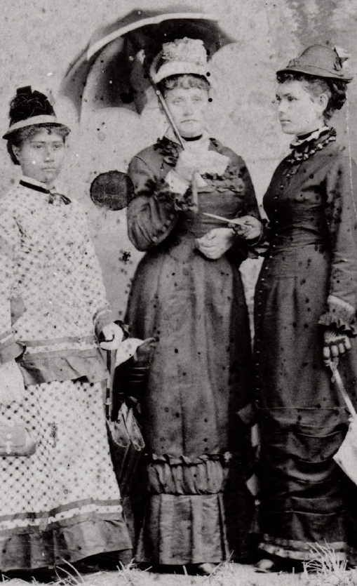 Photograph of three Hawaiian ladies from the 19th century. Left to Right: Grace Kamaʻikuʻi Wahineikaʻili Kahōʻāliʻi (1854–1916), Lucy Kaopauli Kalanikiekie Peabody (1840-1928), and Lizzie Kia Nahaolelua (1852–1909). Miss Kahoalii and Miss Peabody are the relatives of Queen Emma of Hawaii while Lizzie Kia Nahaolelua was lady-in-waiting to Queen Emma and later Liliuokalani.